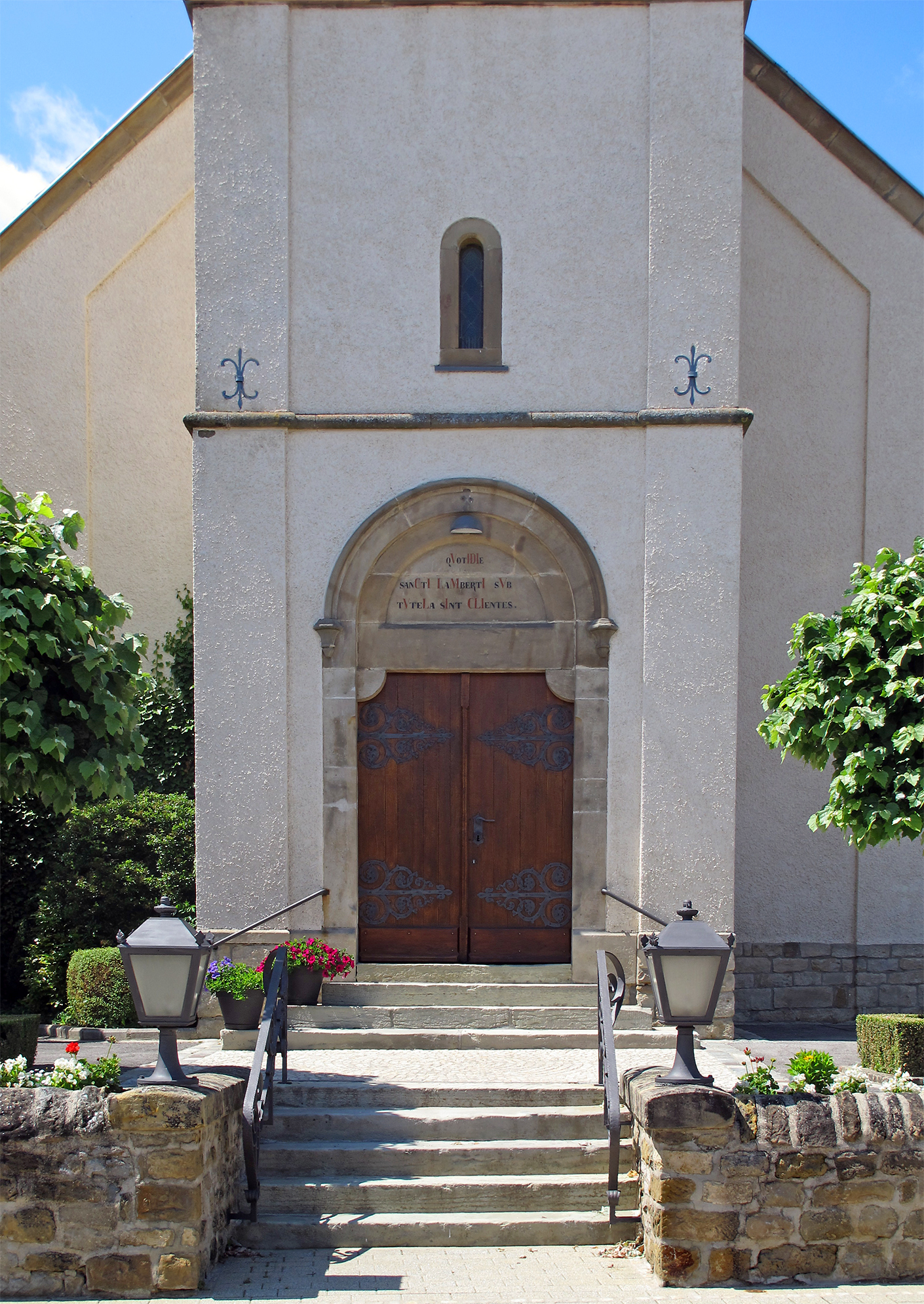 Church of Ellange, Luxembourg